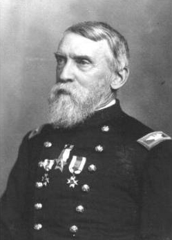 Charles Champion Gilbert, Union General. Source:[1]